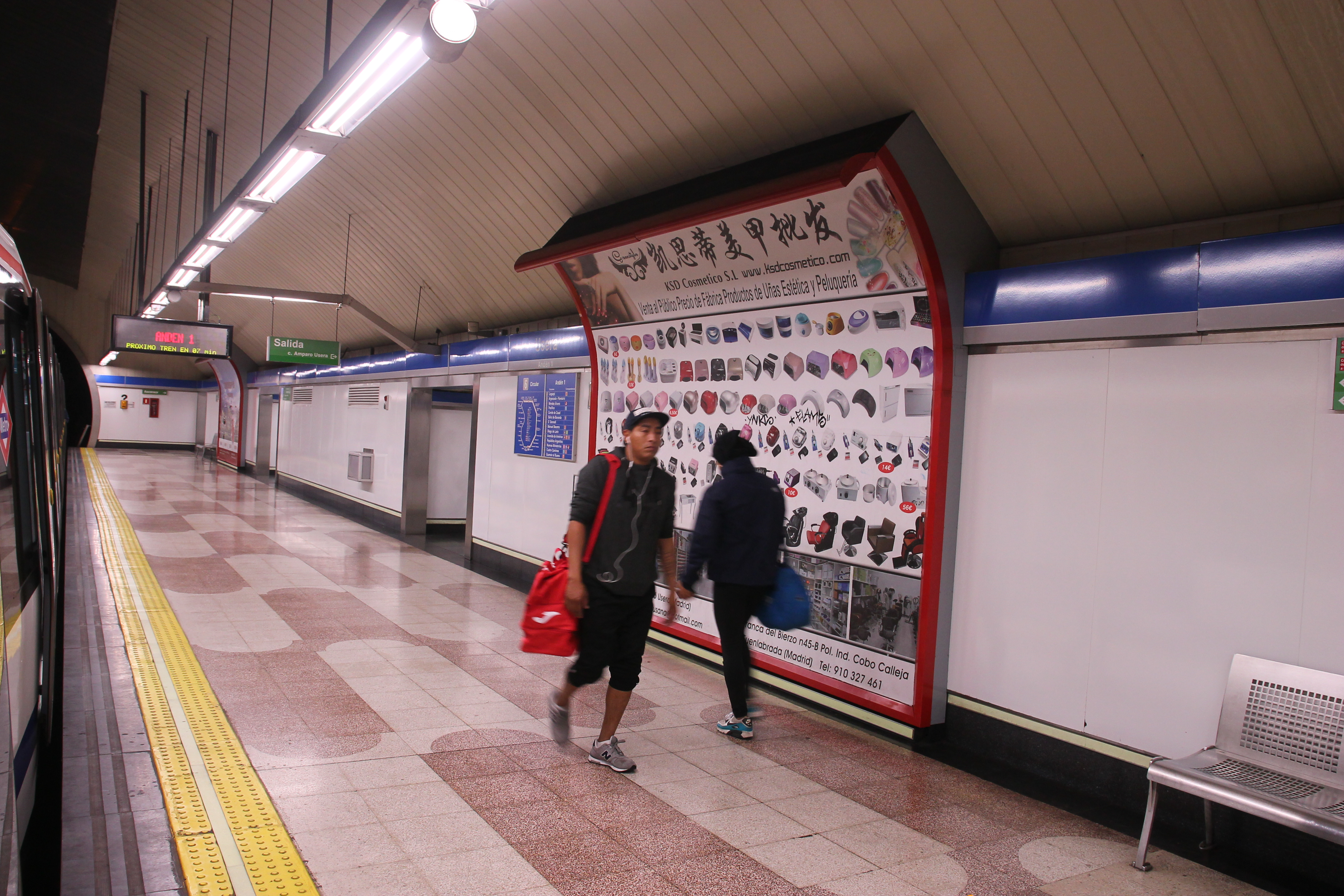 Estación de Usera